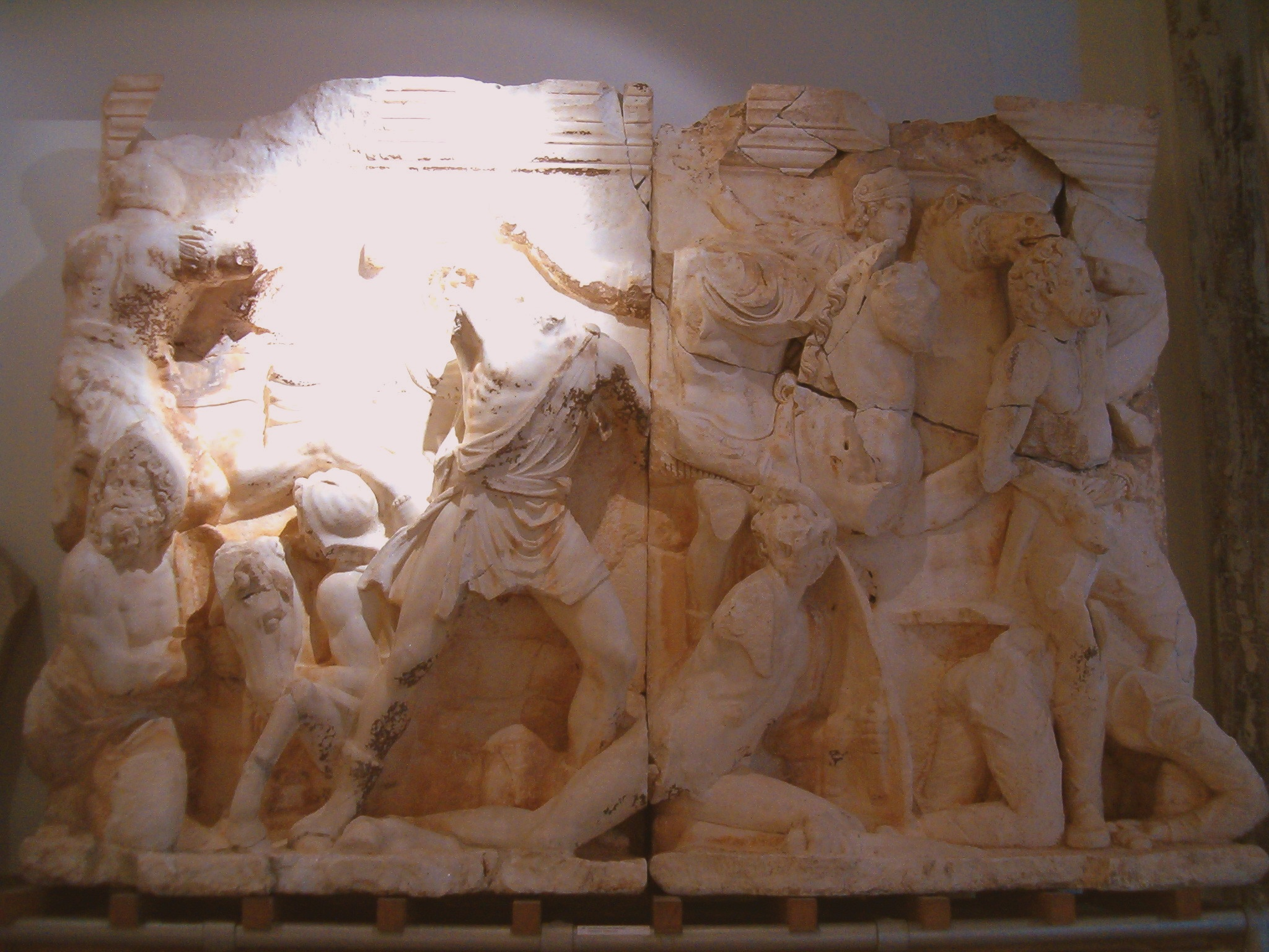 War scene; from Ephesos (Ephesos-Museum, Hofburg, Vienna)